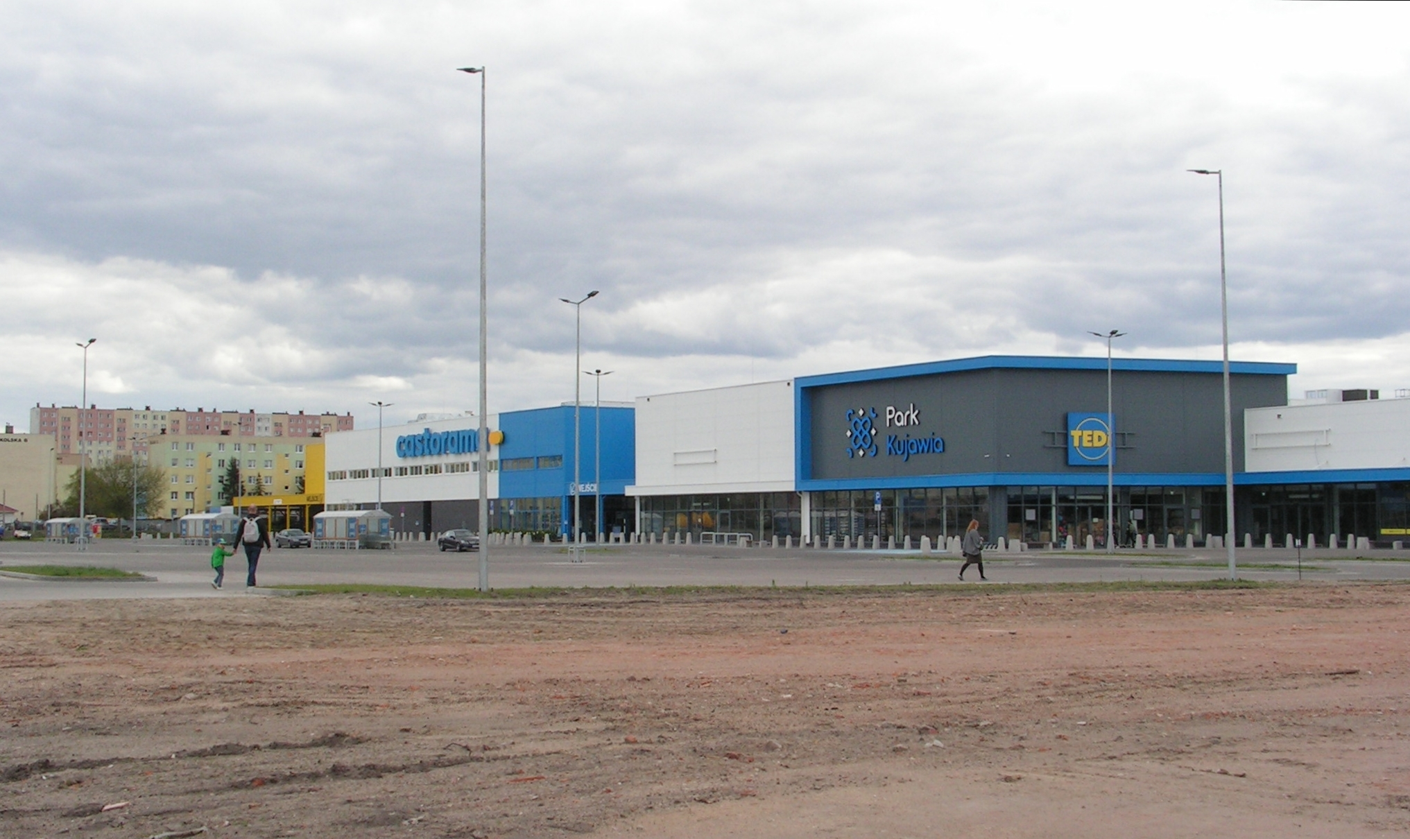 Kujawia Park Shopping Centre in Włocławek. It includes among others Castorama market.